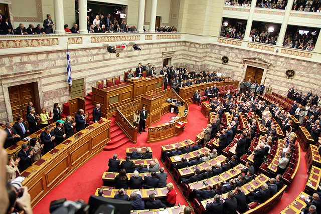 The swearing-in of the members of the Hellenic Parliament.